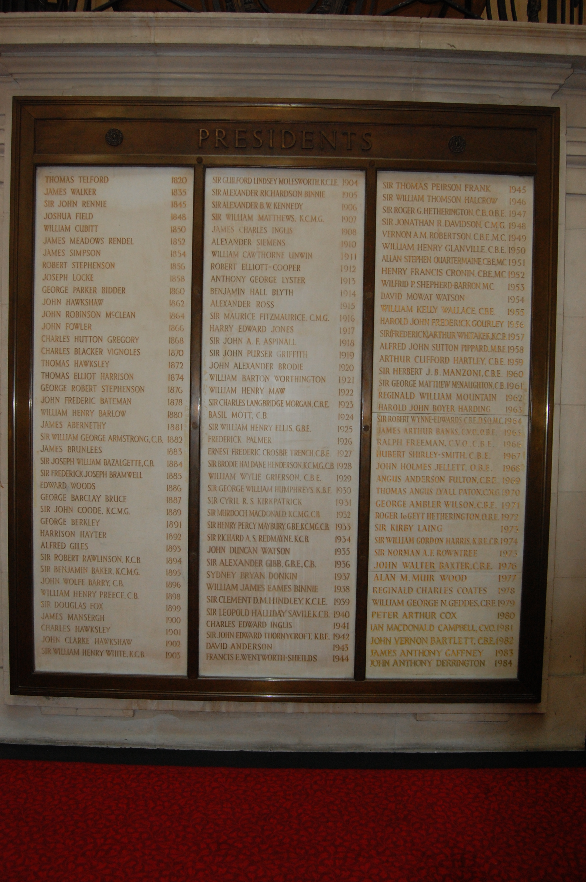 First of a pair of plaques listing past presidents of the Institution of Civil Engineers. This one shows those up to 1984. Taken at a Wikipedia editathon at the Institution of Civil Engineers, at their headquarters, One Great George Street, London.